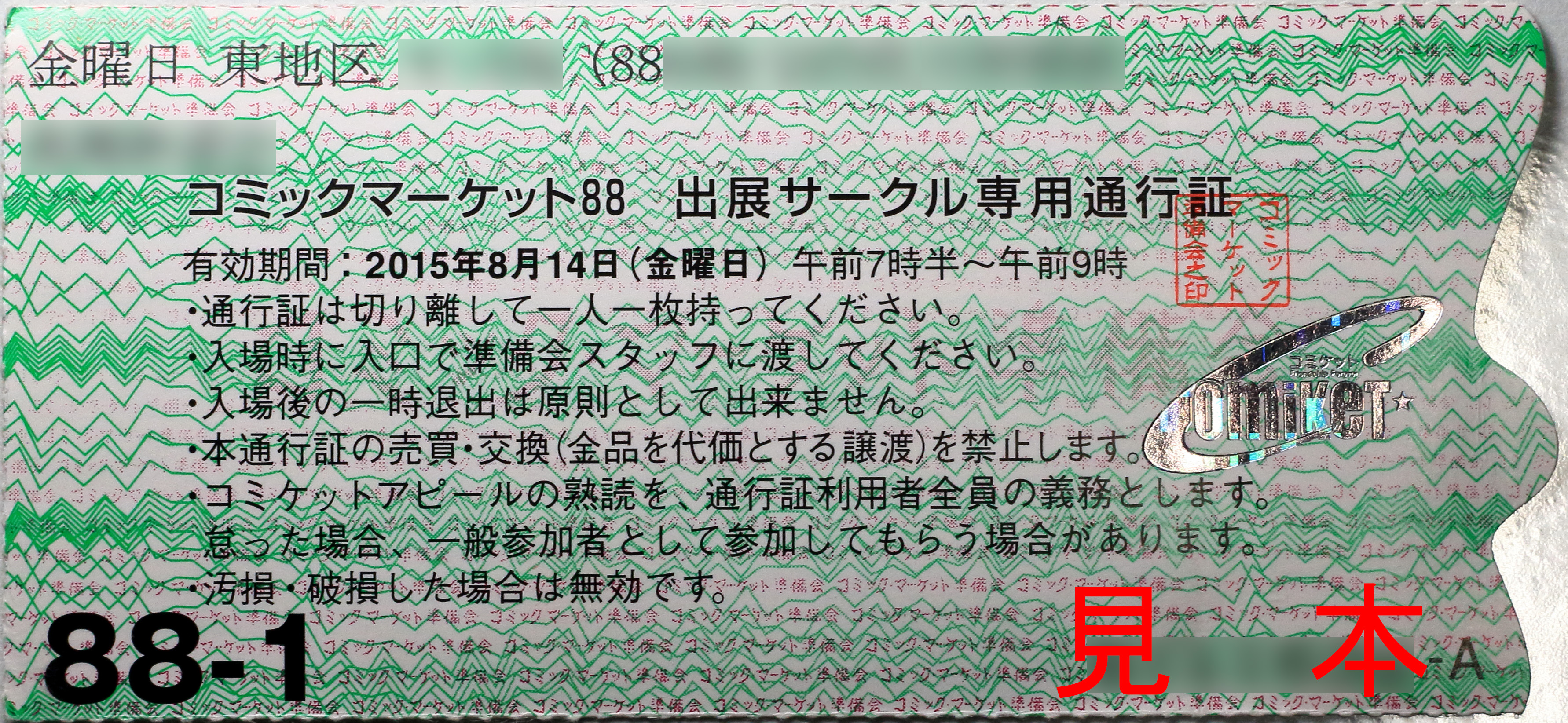 This is Tickets required for Comic market Exhibition participations. This is Comic market 88 First Day(Aug 14 2015) Ticket for exhibitors.